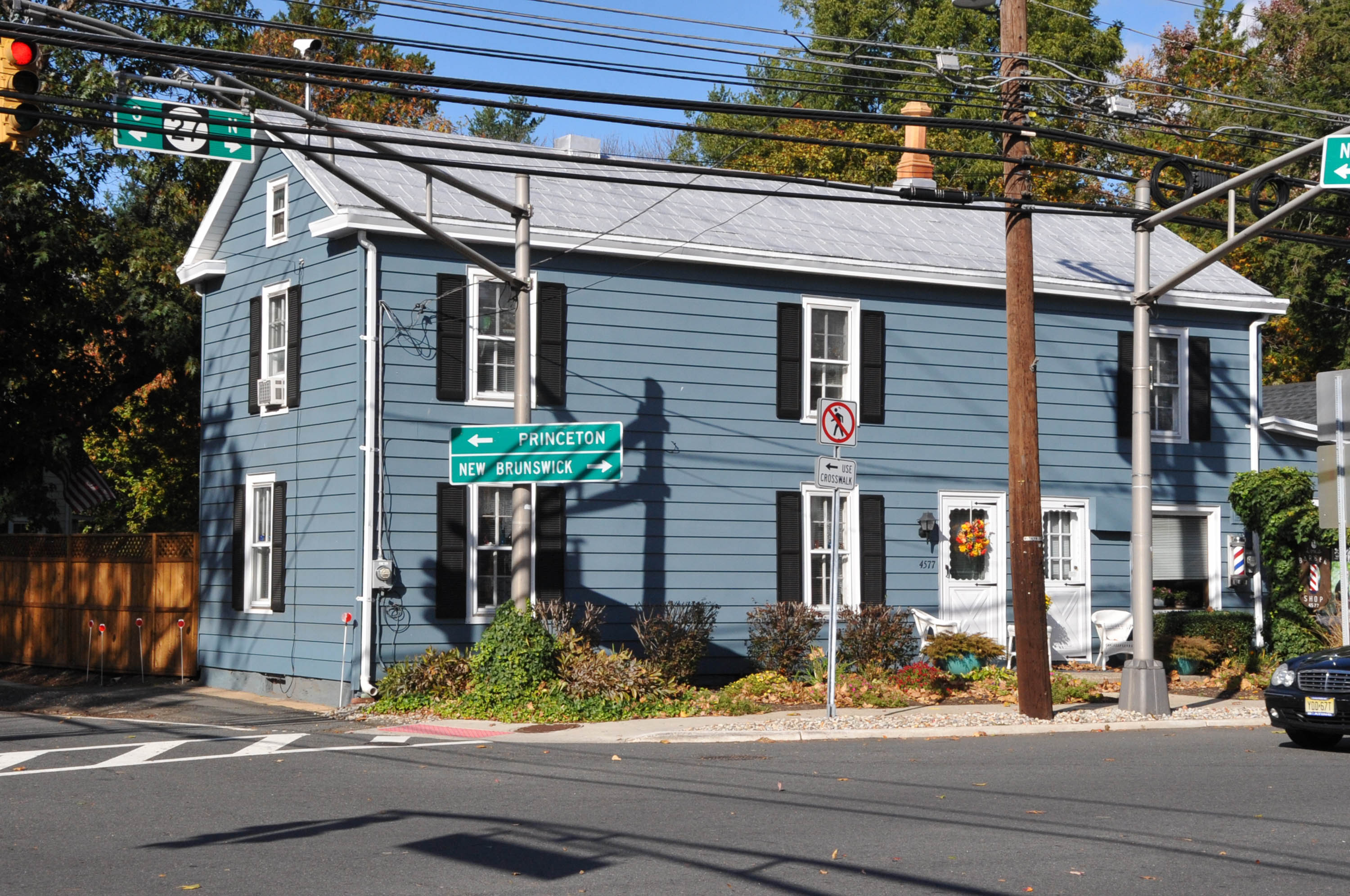 Block 4, Lot 15 — 4577 State Highway 27; Date: c. 1850. Contributing, Kingston Village Historic District.